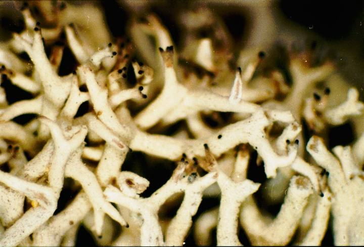 Cladonia evansii Abbayes, 1938 (photograph of a herbarium specimen taken through a dissecting microscope (x40) showing the tips of podetia) Growing in white sand scrub around Juniper Springs Recreation Area, Ocala National Forest, Marion County, Florida, USA; collected and identified by A. Norden and B. Ball (No. 419, 14 Apr 1973); specimen is now in the Lichen Herbarium of the New York Botanical Garden.